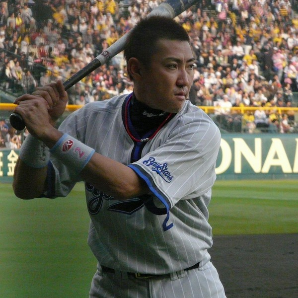 Seiichi Uchikawa, outfielder of the Yokohama BayStars, at Hanshin Koshien Stadium.